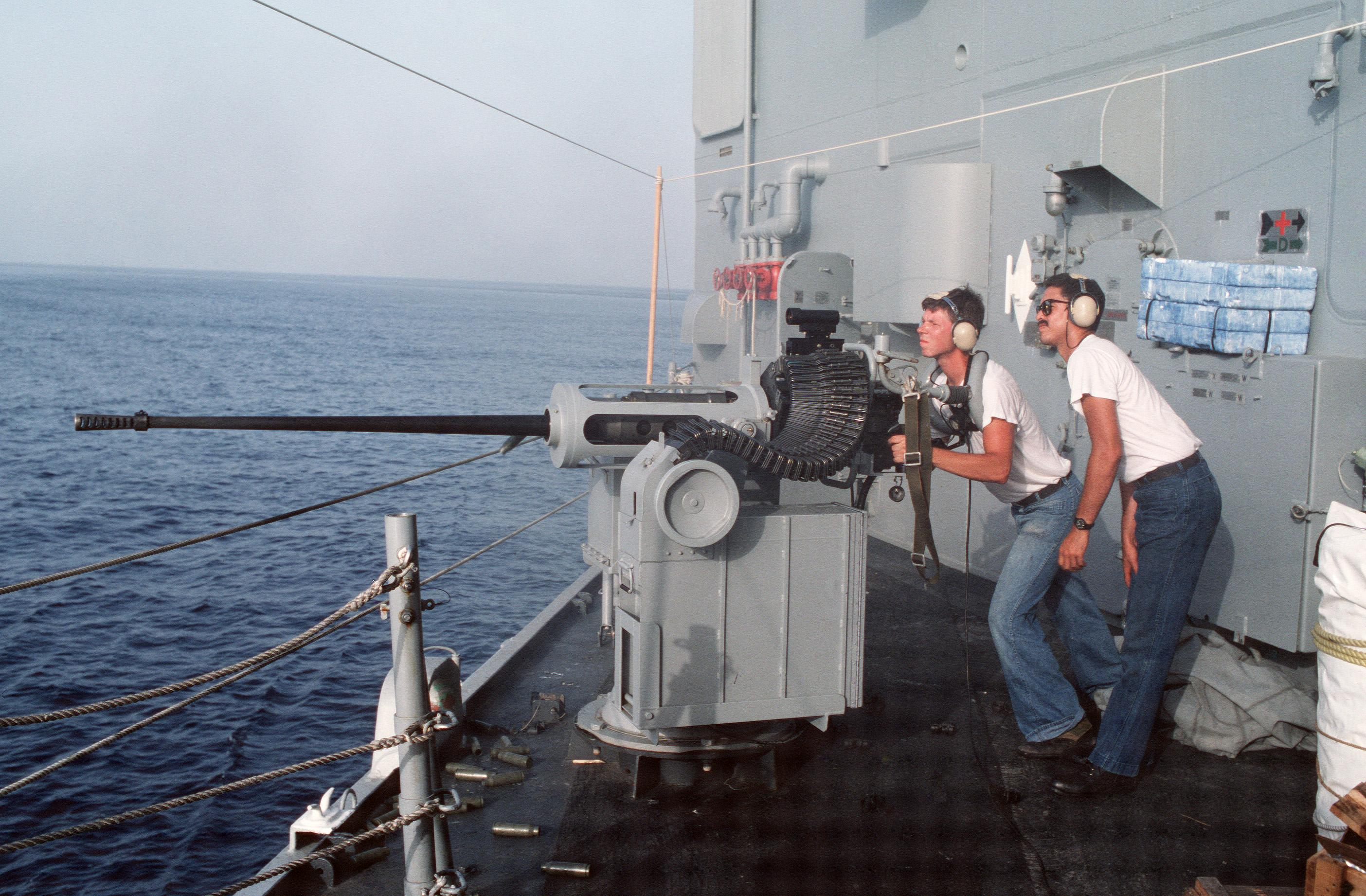 ET3 Steven Brabant aims the AIMS MK 38 MOD 0, 25 mm chain gun as Electronics Technician Third Class ET3 (SW) Rex Ellis stands by during target practice aboard the guided missile frigate USS NICHOLAS (FFG 47) in the Persian Gulf.